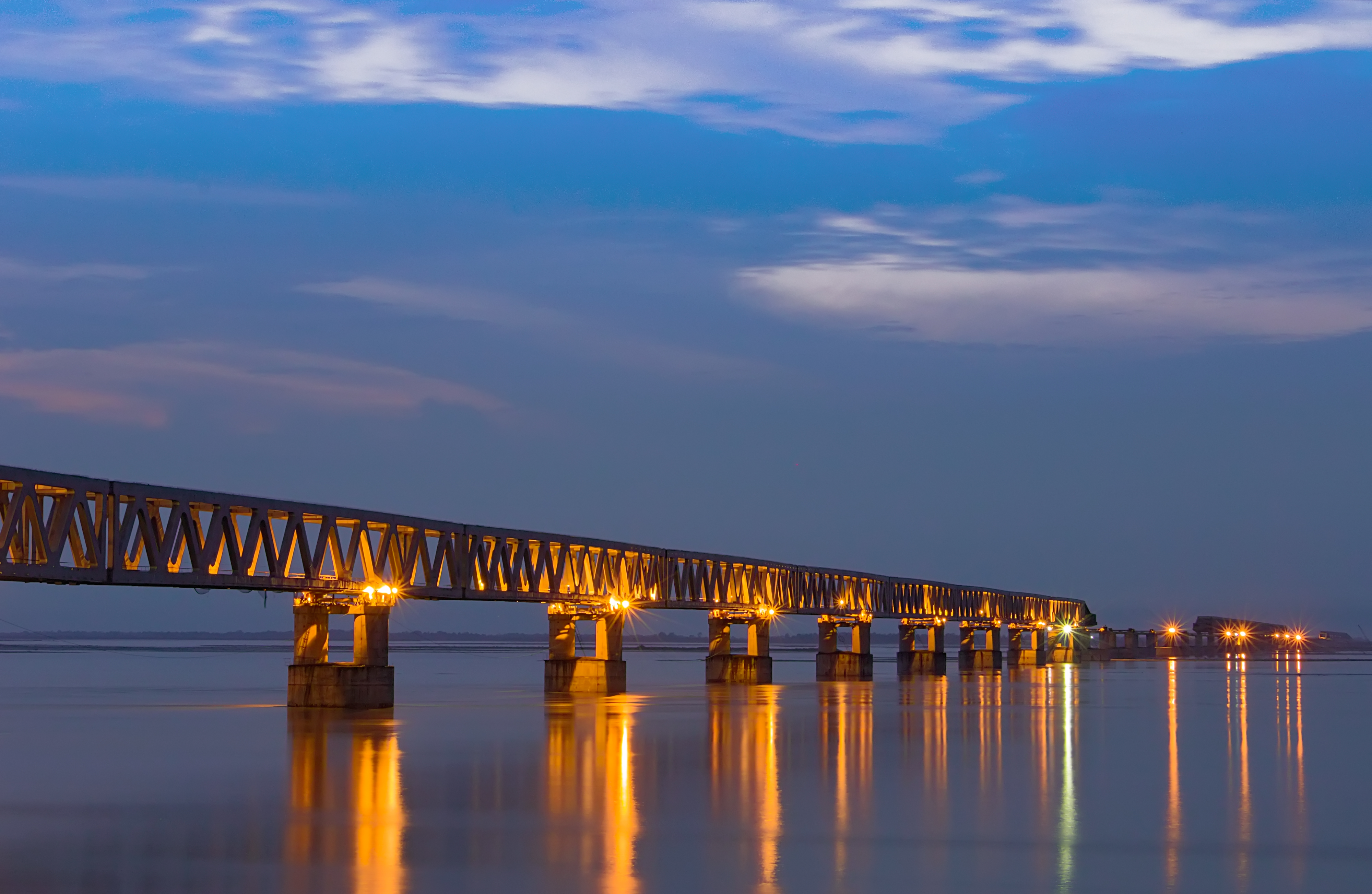 Bogibeel bridge is a combined road and rail bridge in the Dibrugarh district of the north eastern Indian state of Assam.